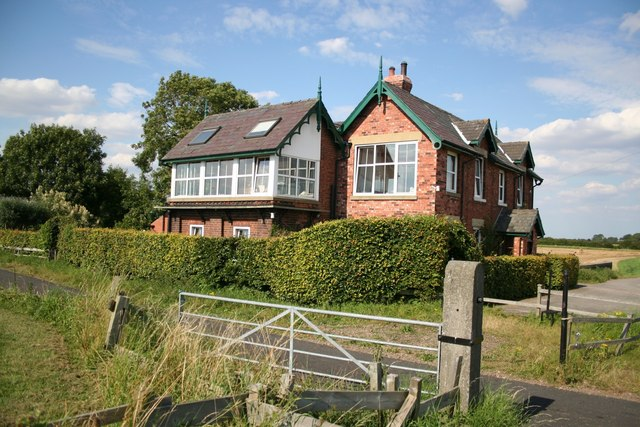 Station House Former Station House at Stixwould, very cleverly adapted to incorporate the old signal box as a sun lounge with views over the River Witham and surrounding farmland